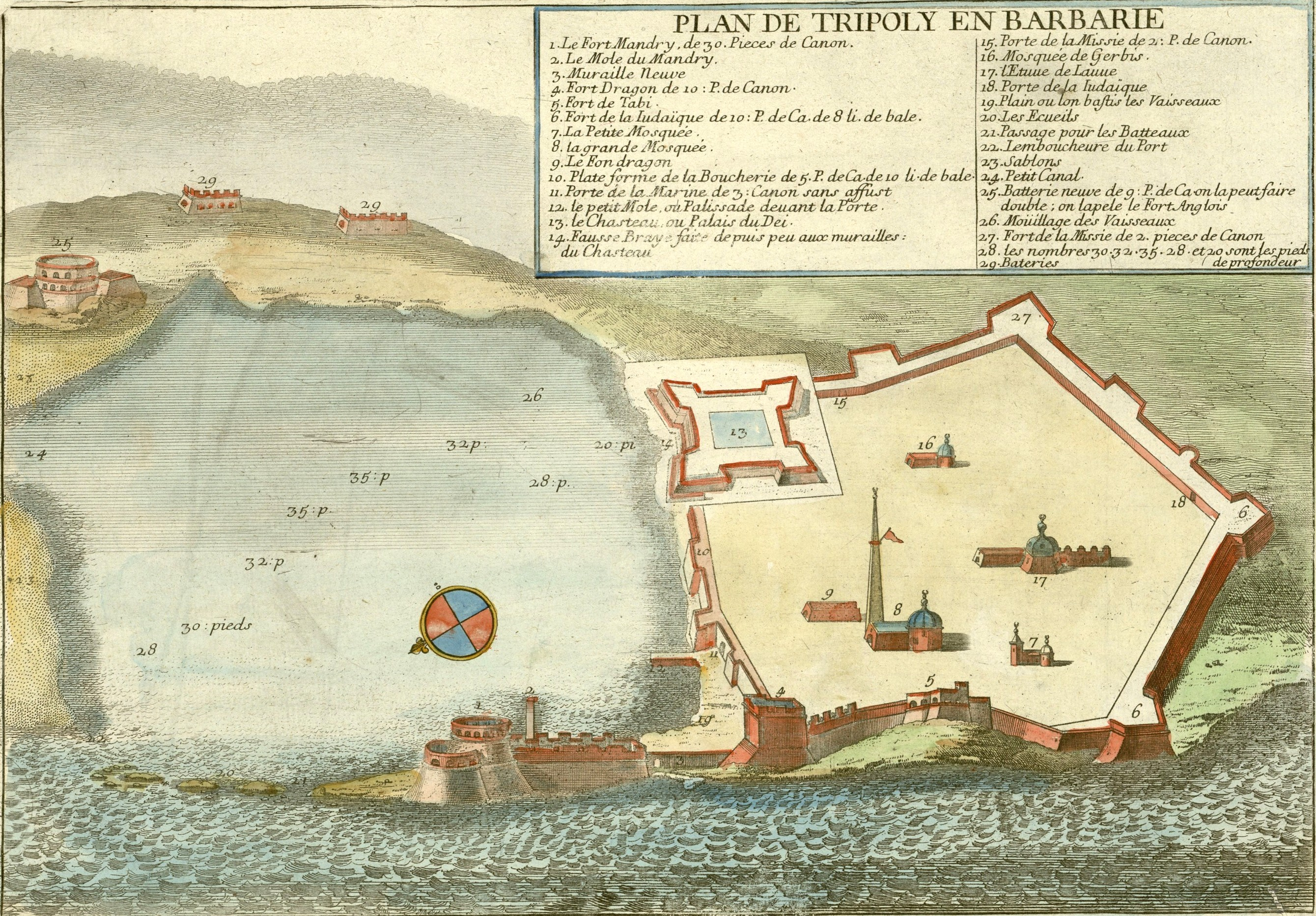 Nicolas_de_Fer_1705_Tripoli When Spanish forces occupied Tripoli in 1510, they destroyed the city, and constructed a fortified naval base from the Rubble.